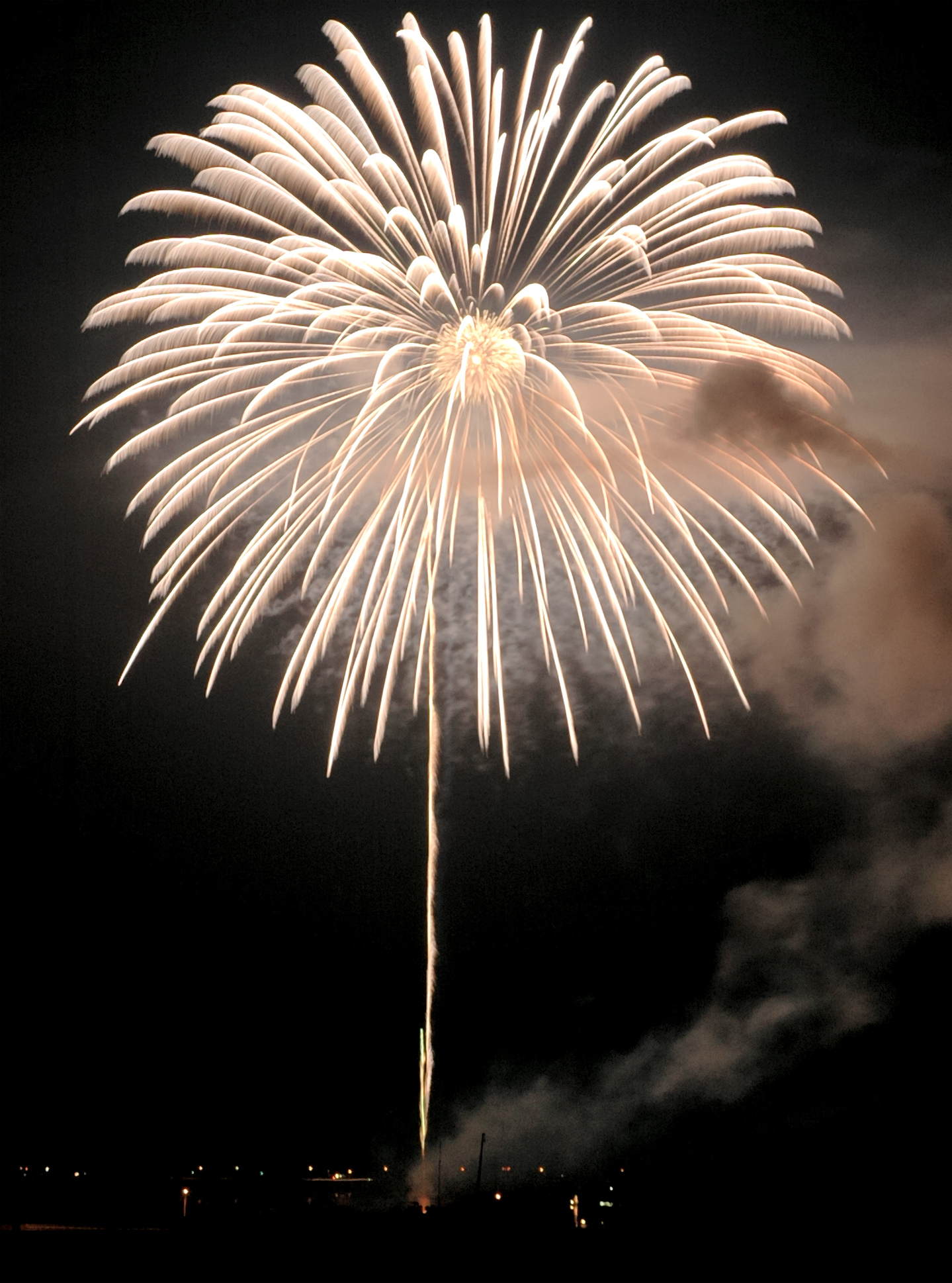 Fireworks of Ojiya Festival (おぢやまつりの花火)